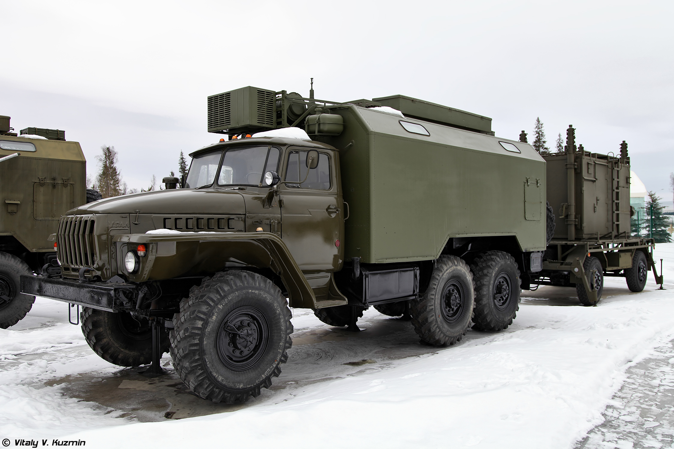 R-330Zh Zhitel ECM station